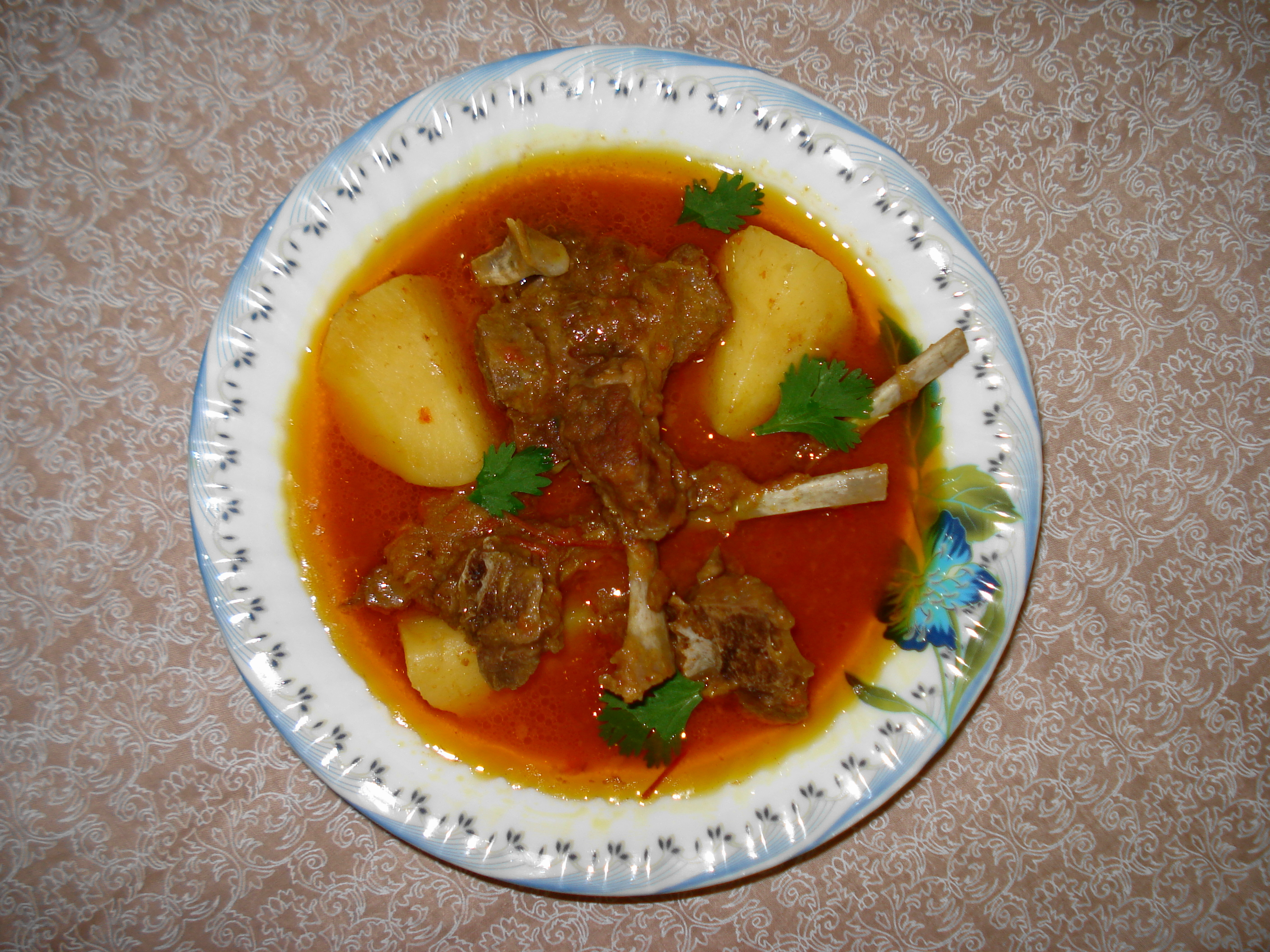 Aaloo Gosht